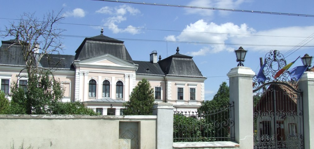 Banffy Castle in Răscruci village, Cluj County, Romania